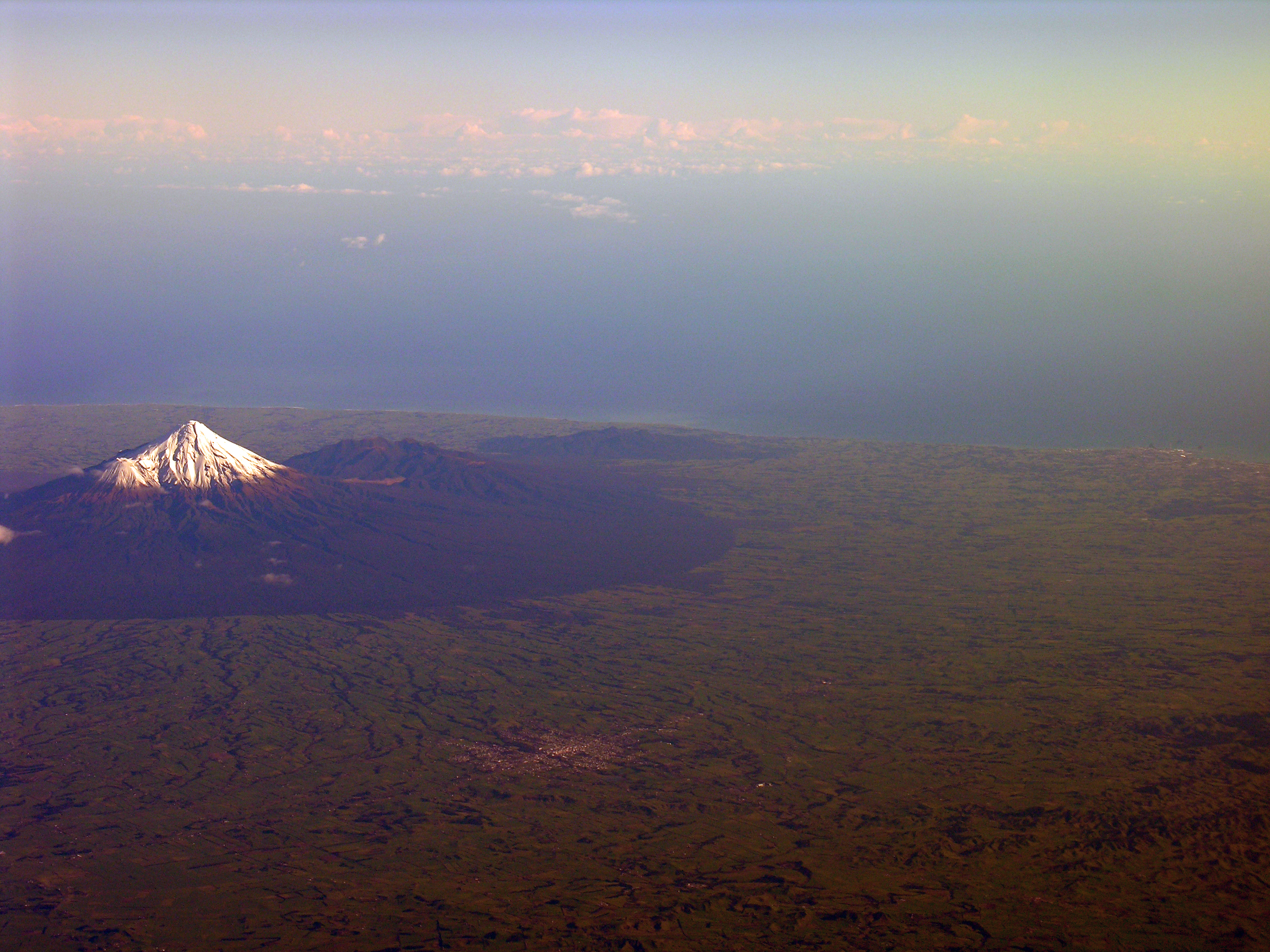 En route Wellington to Auckland